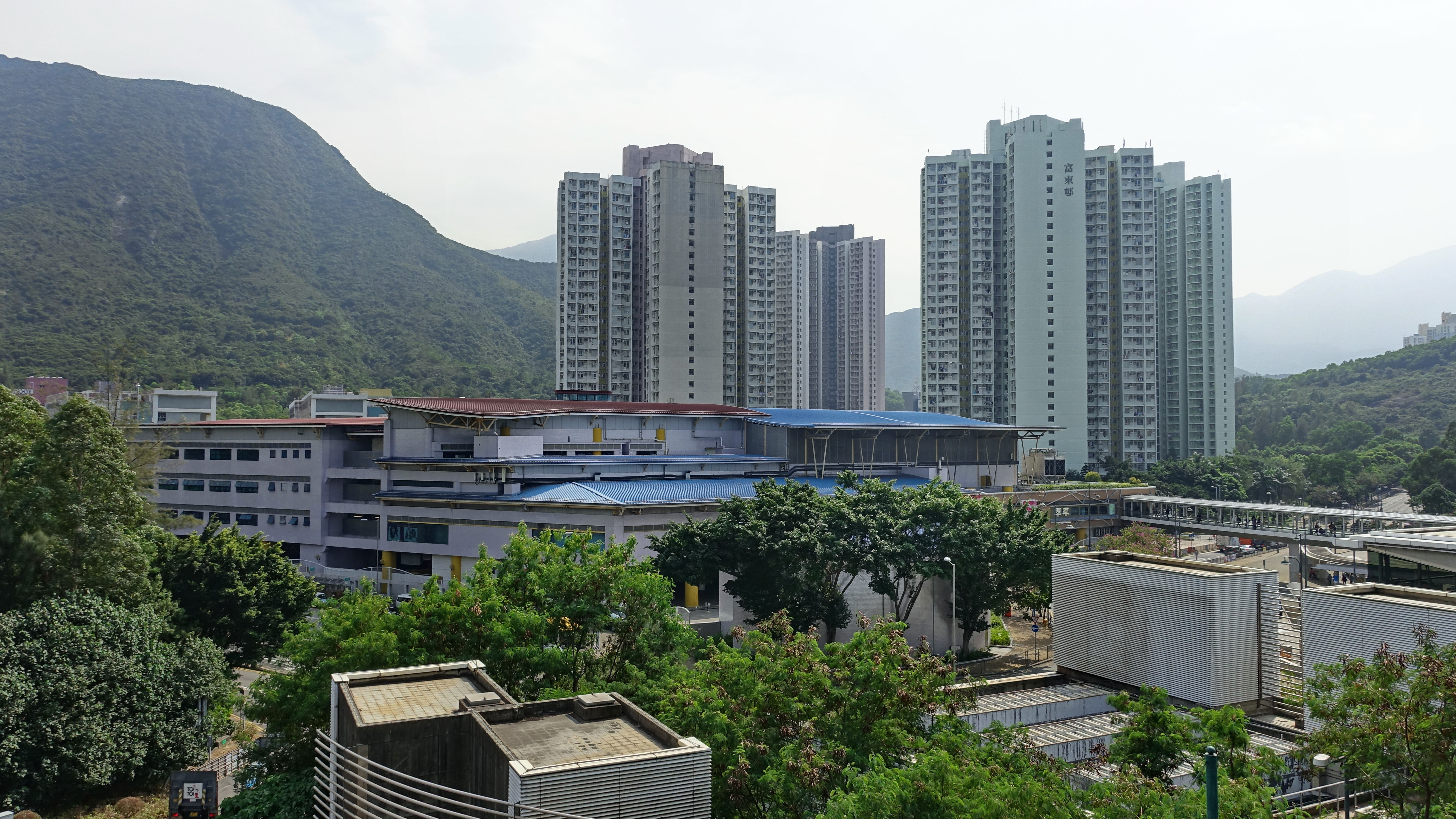 Fu Tung Estate and Yu Tung Court, Tung Chung, Hong Kong.